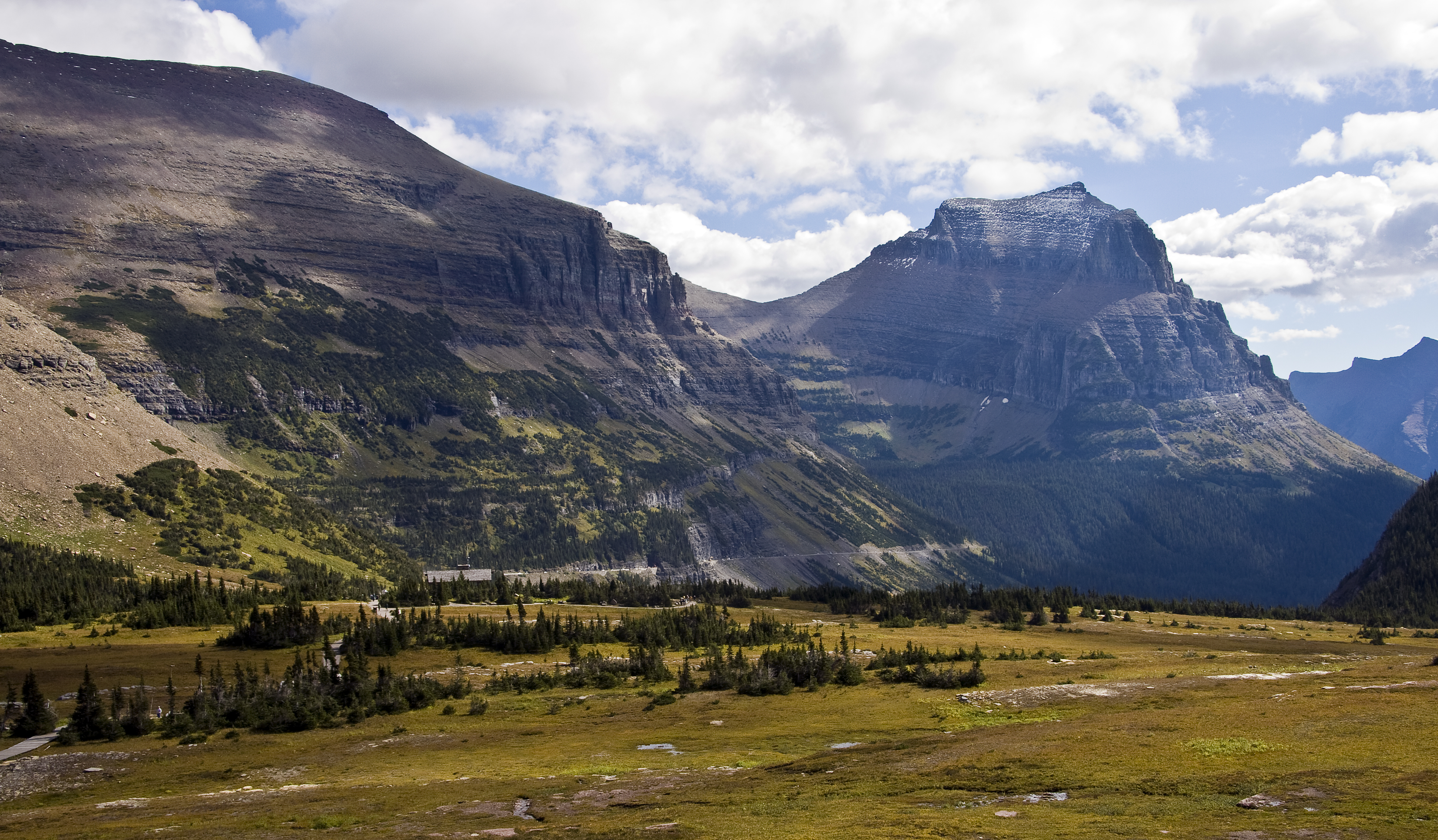 View of Logan Pass, with the Logan Pass visitor center in middle distance, the Going-to-the-Sun Road beyond and Going-to-the-Sun Mountain, in Glacier National Park, Montana, USA